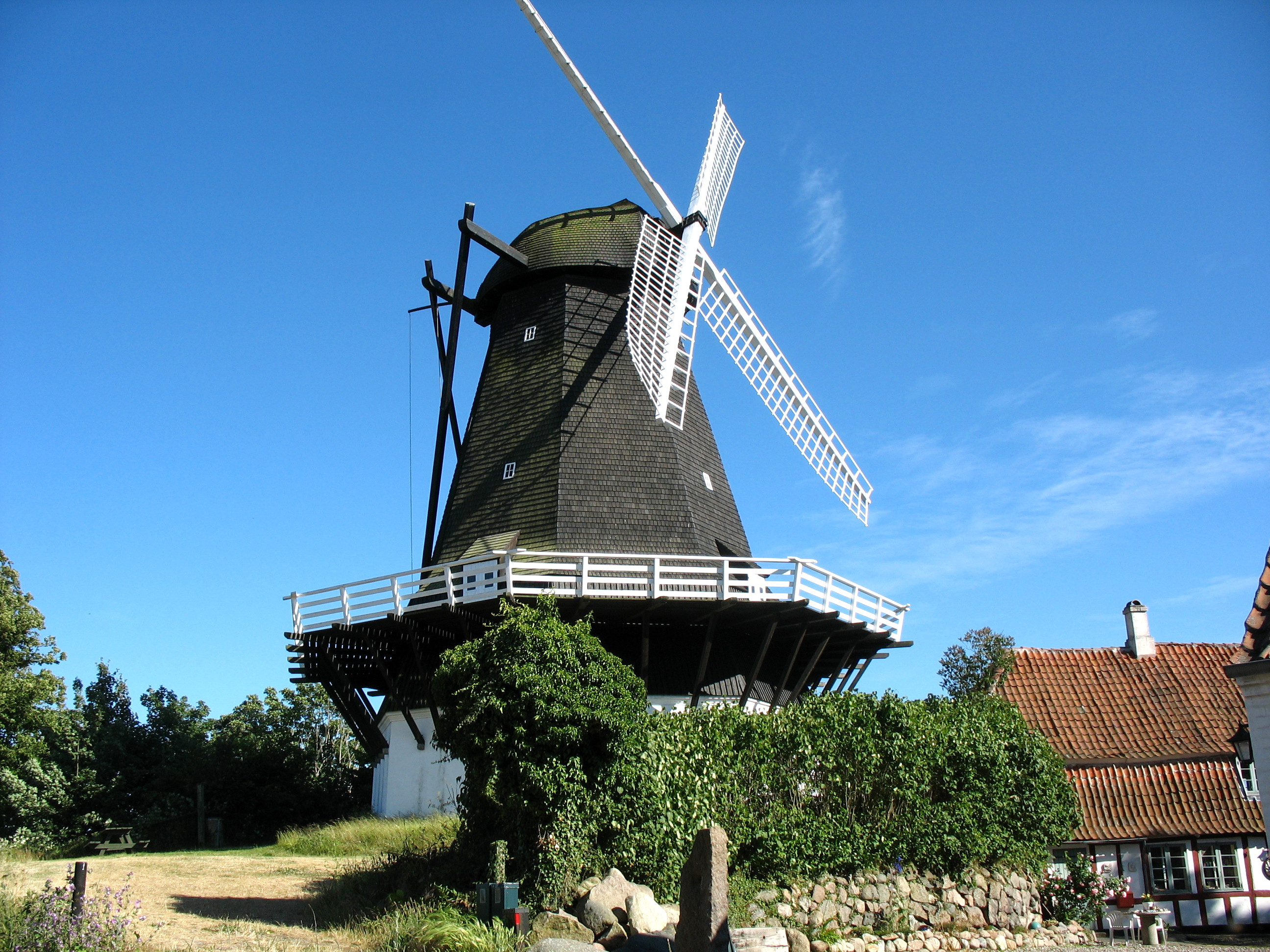 The mill "Rudkøbing Bymølle" from the Danish town "Rudkøbing" (on the island Langeland)